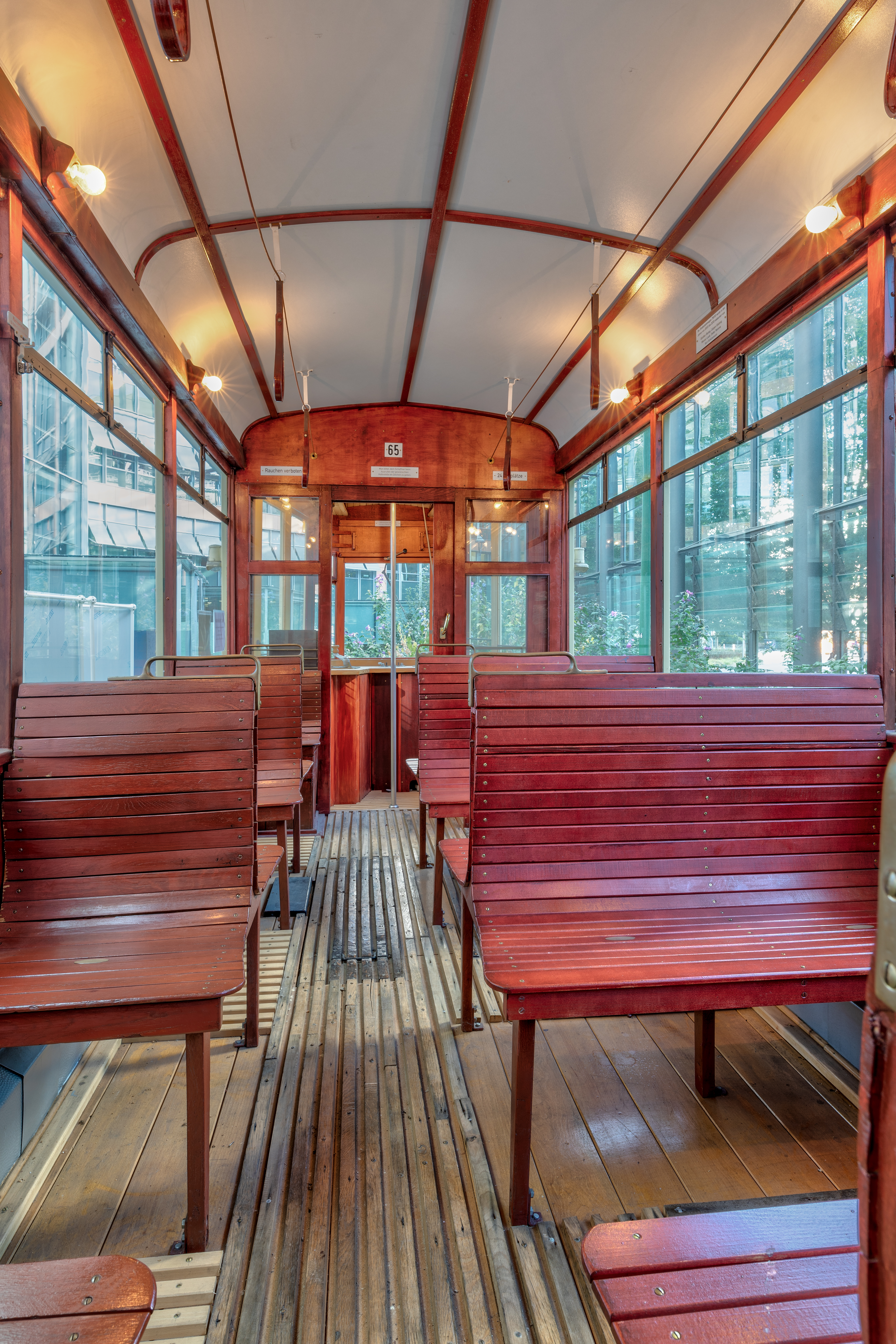 Tram (railcar 65) in the Stadthaus 3, Münster, North Rhine-Westphalia, Germany